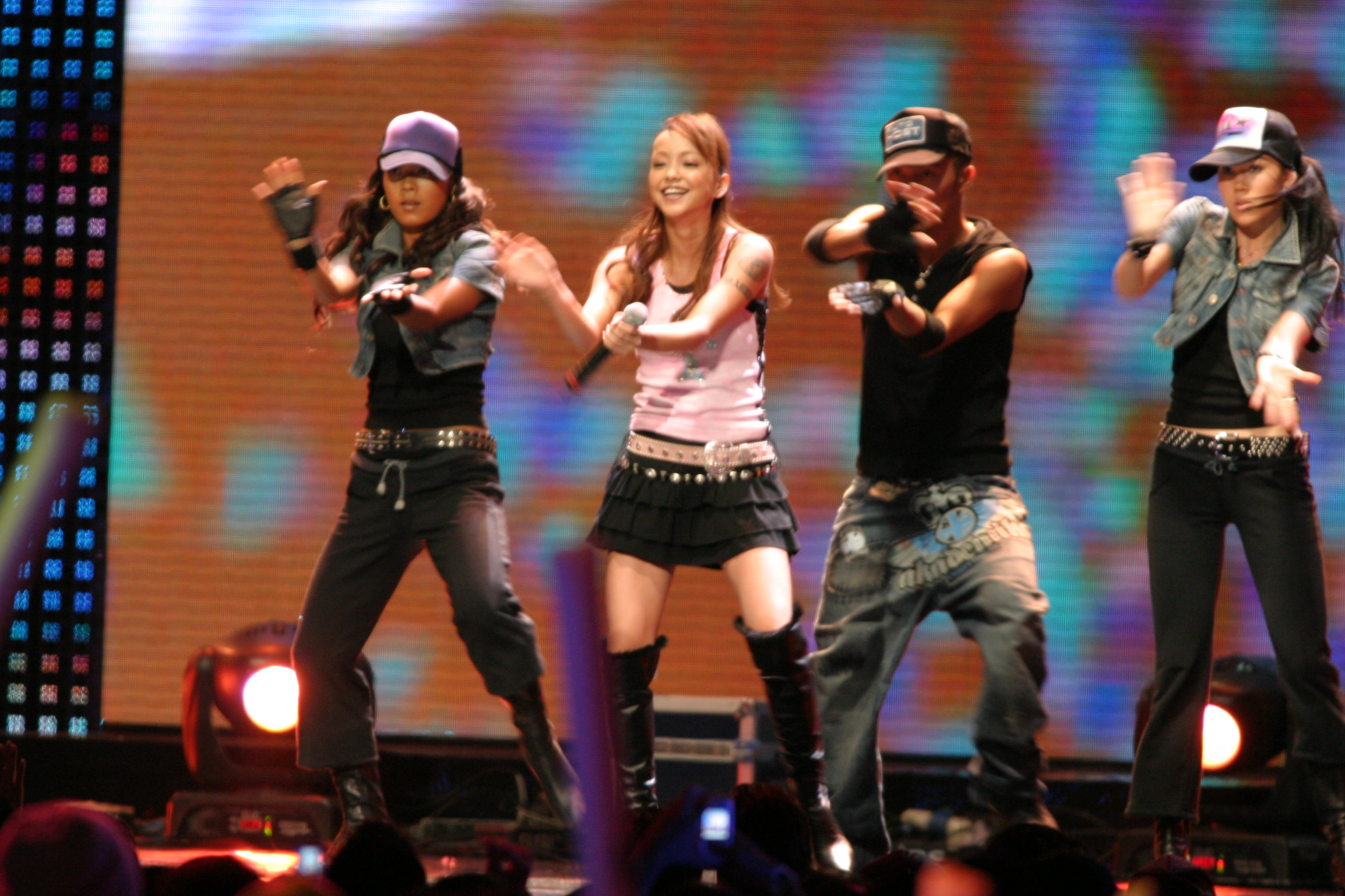 Perform at MTV Asia Aid ,Bangkok,Thailand